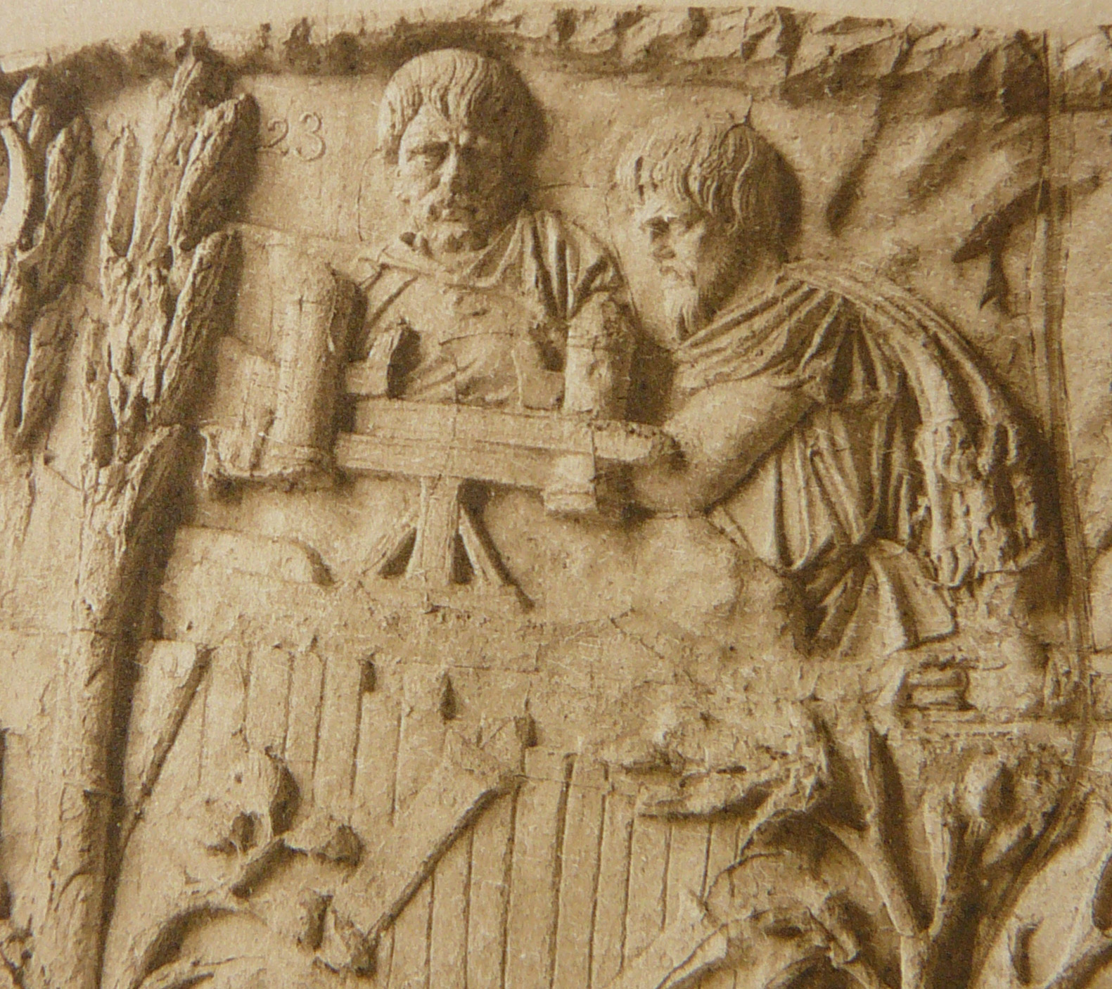 Dacian ballista (arrow and stone firing machine)